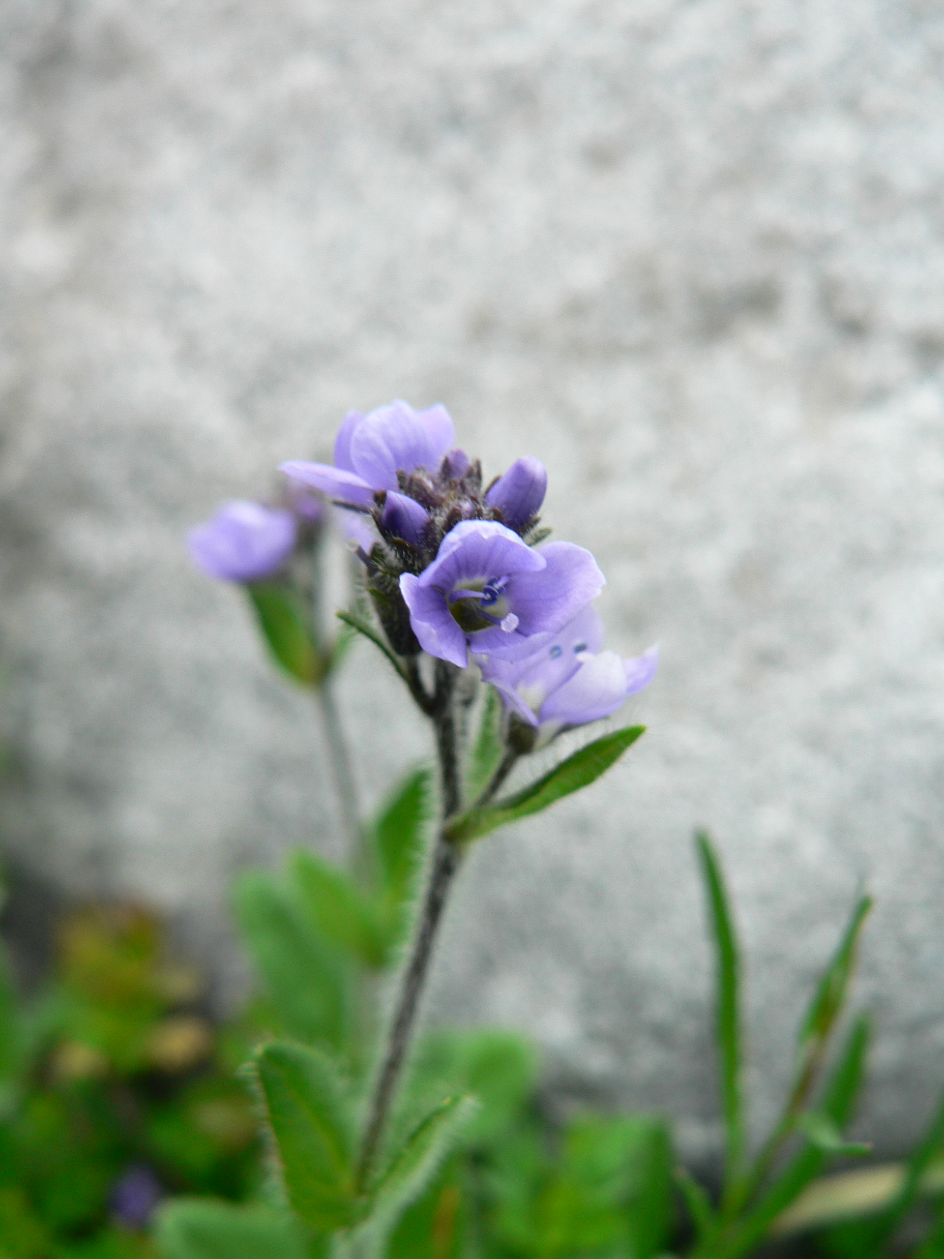 Alpine Speedwell, Hairy Speedwell